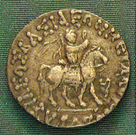 Azes II in armour, riding a horse, on one of his silver tetradrachms, minted in Gandhara. British Museum. Personal photograph.